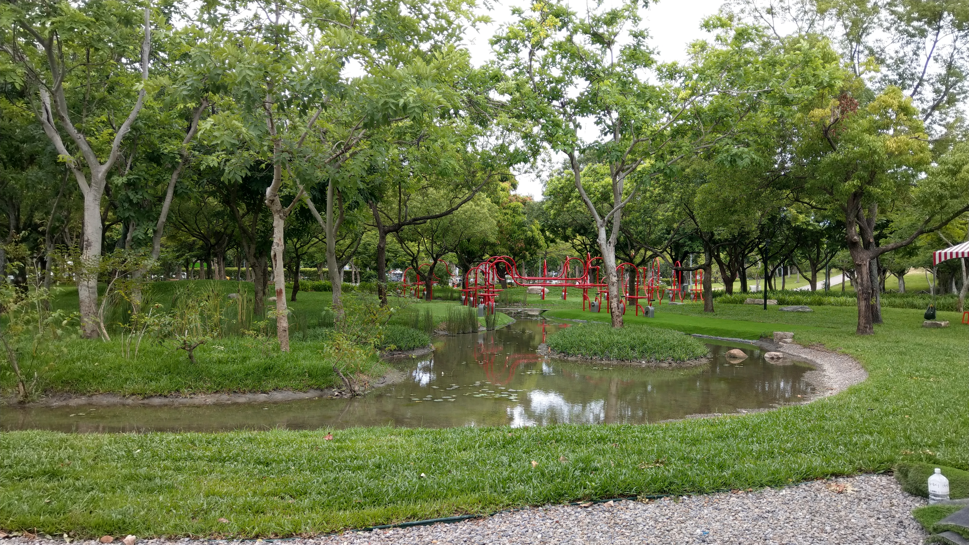 Ecological water in Daan Park, Taipei City, Taiwan, which was built in 2018.